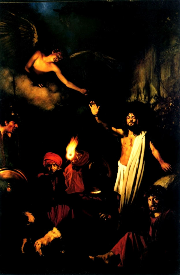 The Resurrection of Christ (Altarpiece 118" x 177")